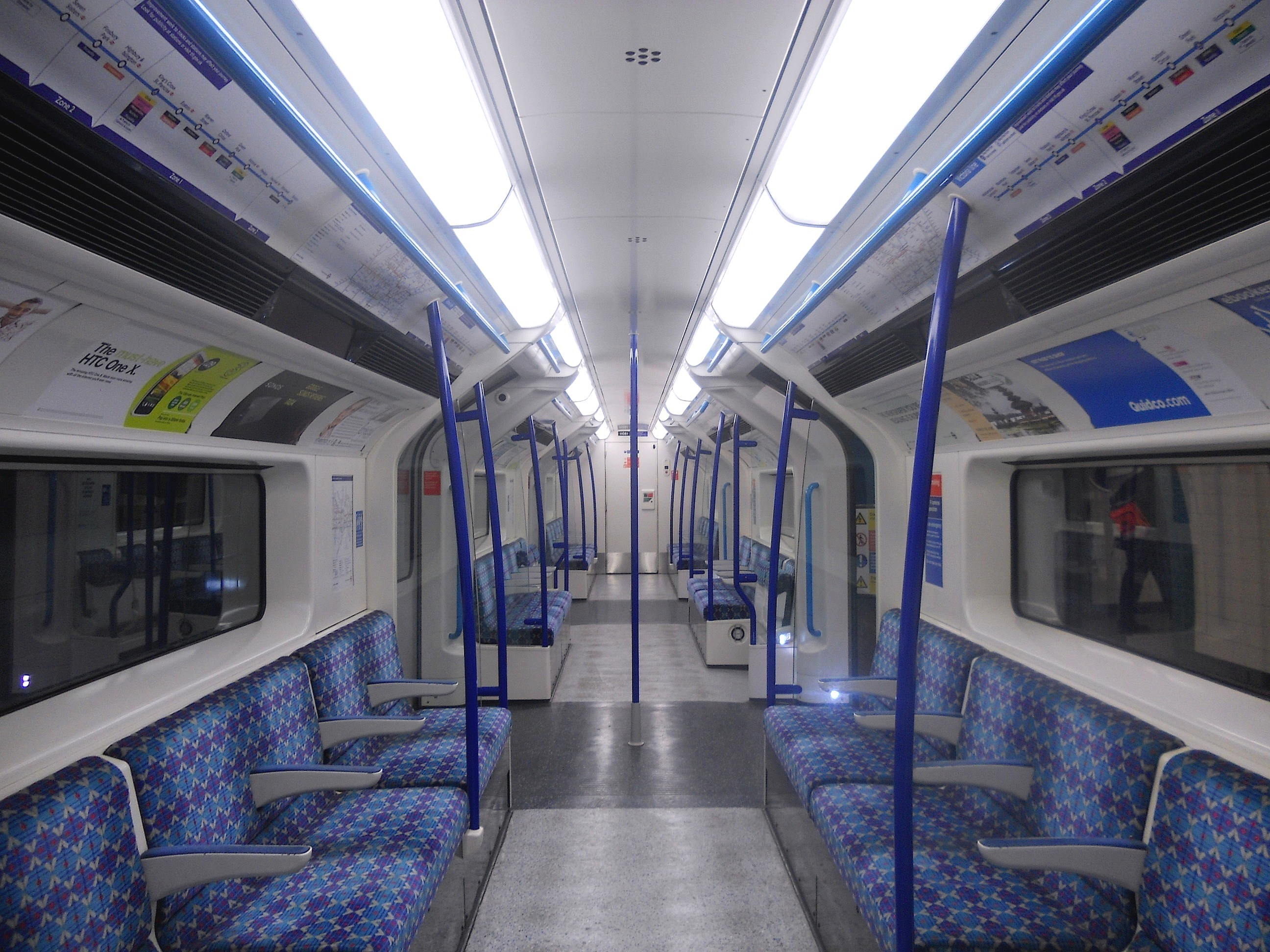 The interior of London Underground Victoria line 2009 Tube Stock